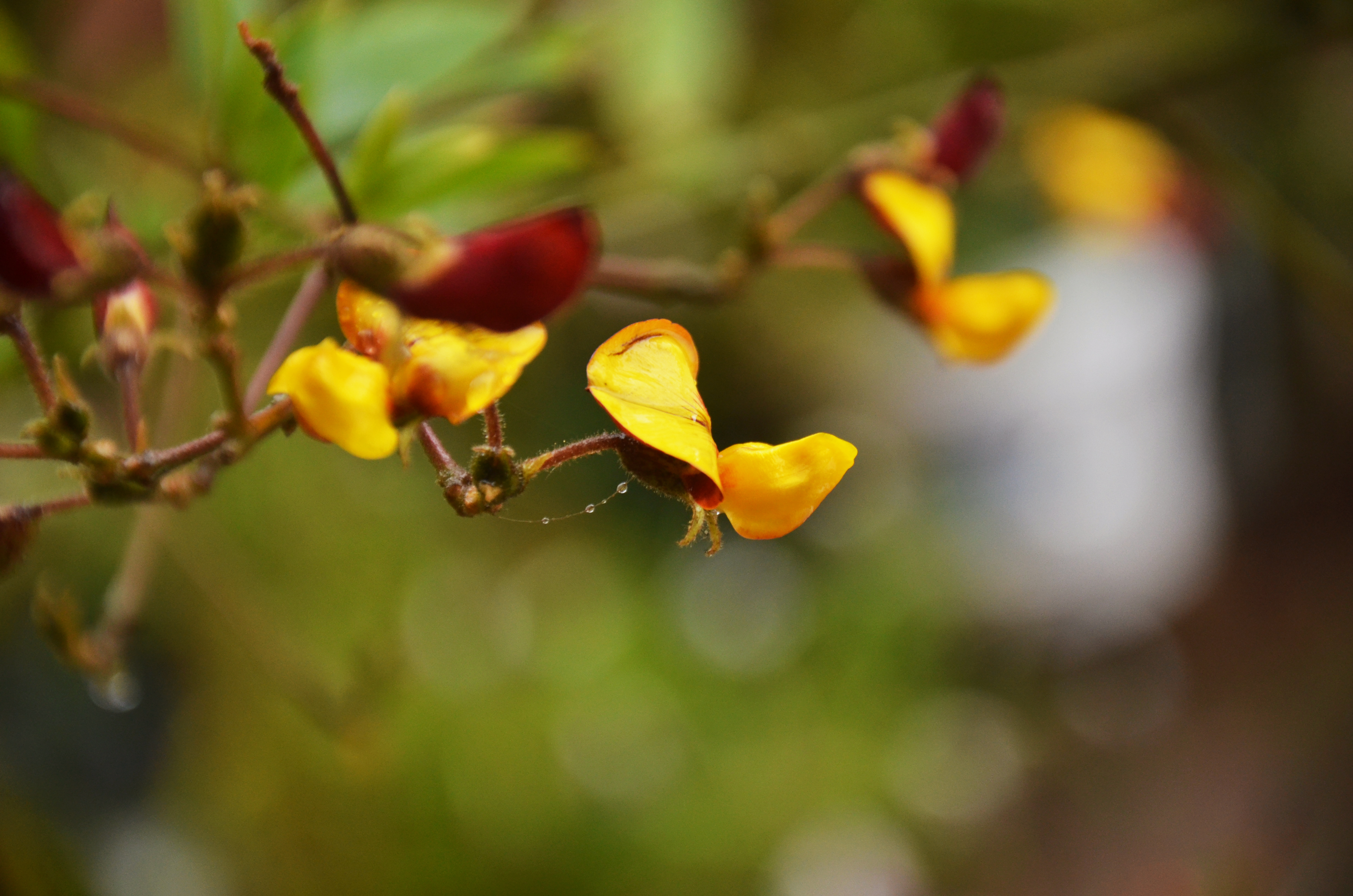 Pigeon pea flower at Sydney 2019